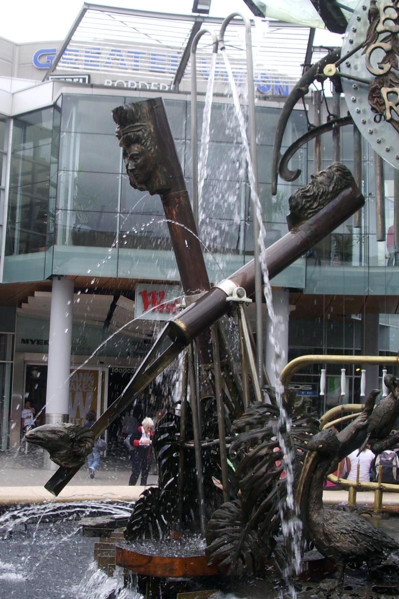 Hornsby water clock: detail of the Greek clepsydra